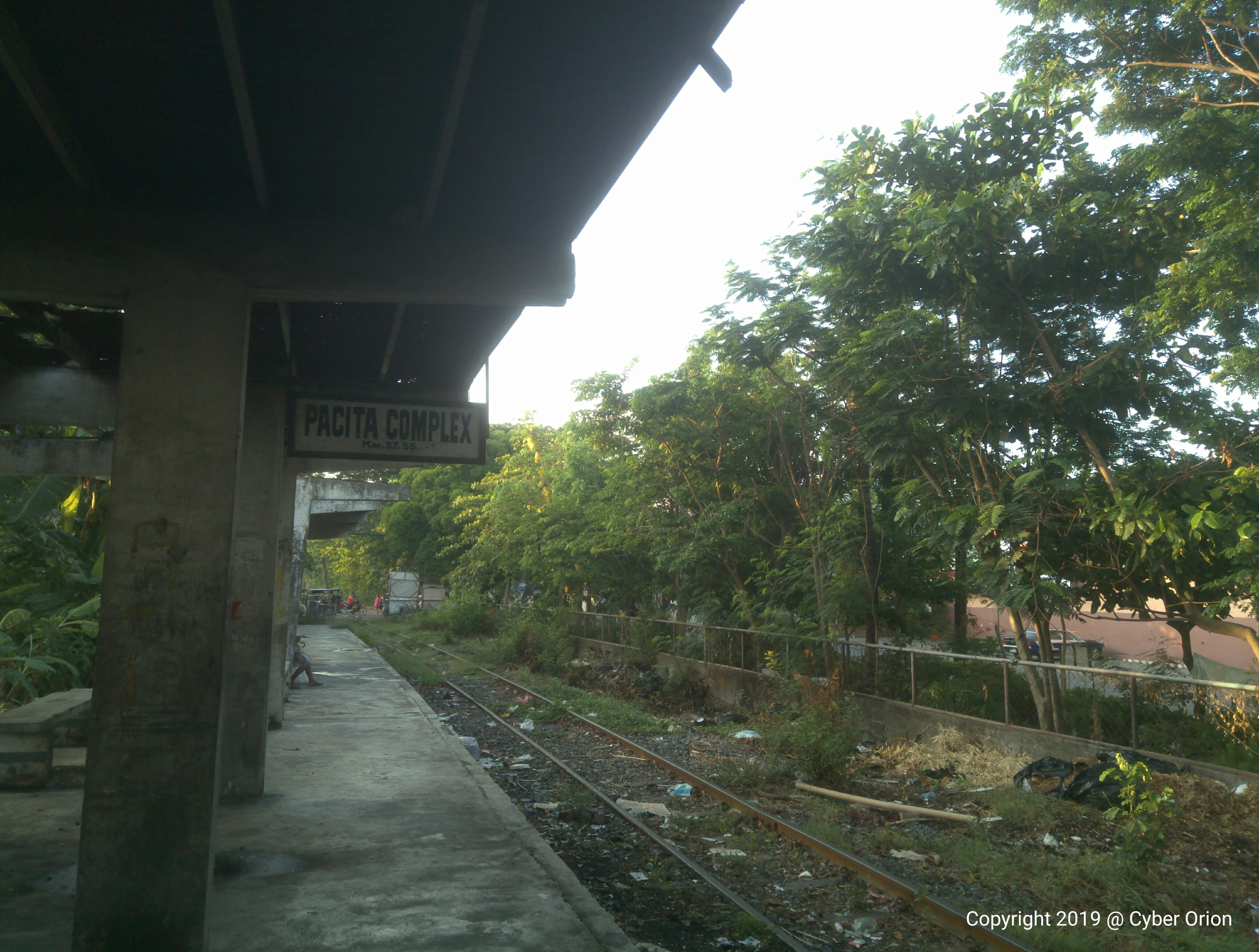 Was on an expedition to survey the San Pedro-Carmona branch line, after that, I decided to go to PMG to capture the next train after MSC T-546.